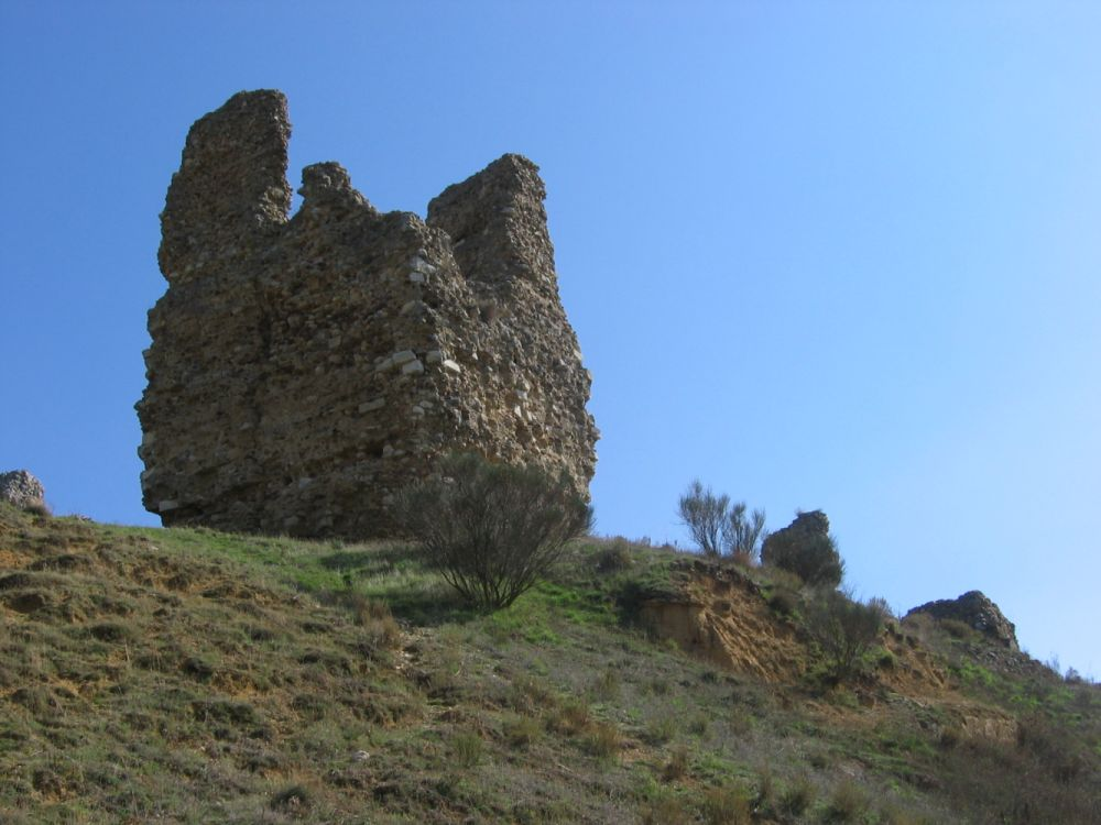 Castillo de Saldaña